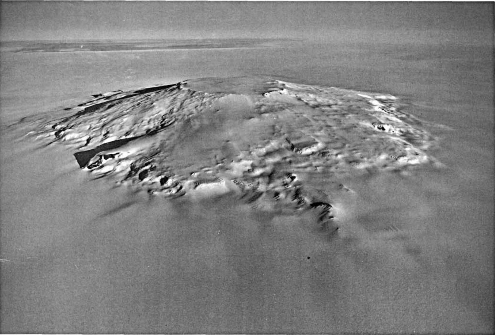 Oblique aerial photograph of Takahe volcano (76º17'S., 112º05'W.), Marie Byrd Land, taken from an altitude of 7,400m on 5 January 1956, looking east. U.S. Navy trimetrogon aerial photograph no. 22 (TMA 1718 F33) from the Antarctic Map and Photograph Library, U.S. Geological Survey.